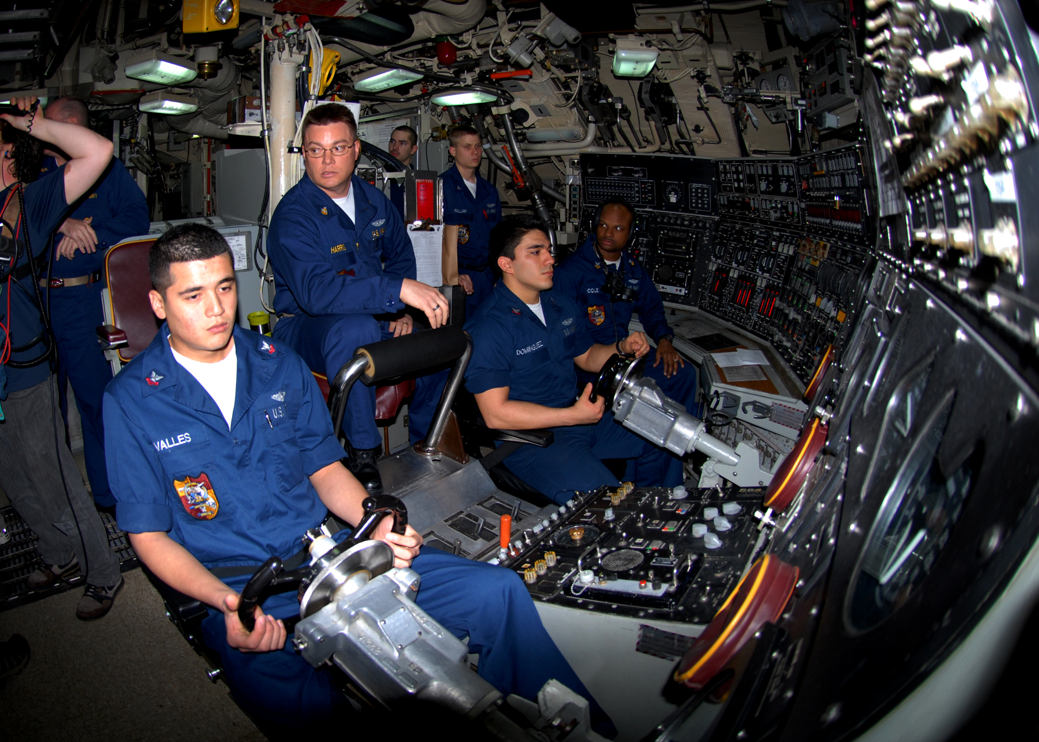 MEDITERANEAN SEA (March 8, 2010) Machinist's Mate 3rd Class Juan Valles, left, mans the helm of the Ohio-class guided-missile submarine USS Florida (SSGN-728), as Senior Chief Missile Technician Wyatt Harris serves as diving officer of the watch, Machinist's Mate 2nd Class Jesse Dominguez, Jr. mans the stern plane and Machinist's Mate 1st Class Kenny Cole serves as chief of the watch. Florida is on a deployment in the U.S. 6th Fleet area of responsibility. (U.S. Navy photo by Chief Mass Communication Specialist Dean Lohmeyer/Released)